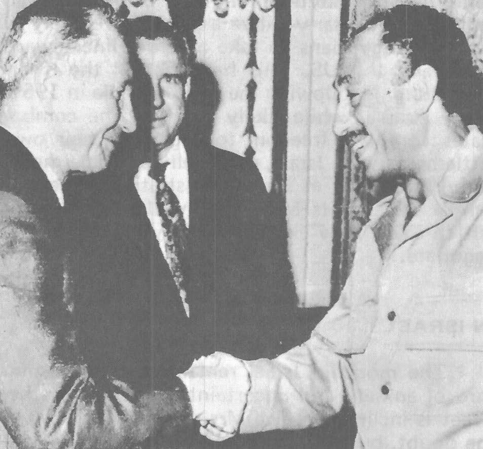 Soviet diplomat Vasili Kuznetsov (left) meets with Egyptian President Anwar Sadat in Cairo, Egypt. From the booklet "President Nixon and the Role of Intelligence in the 1973 Arab-Israeli War." For more information, visit